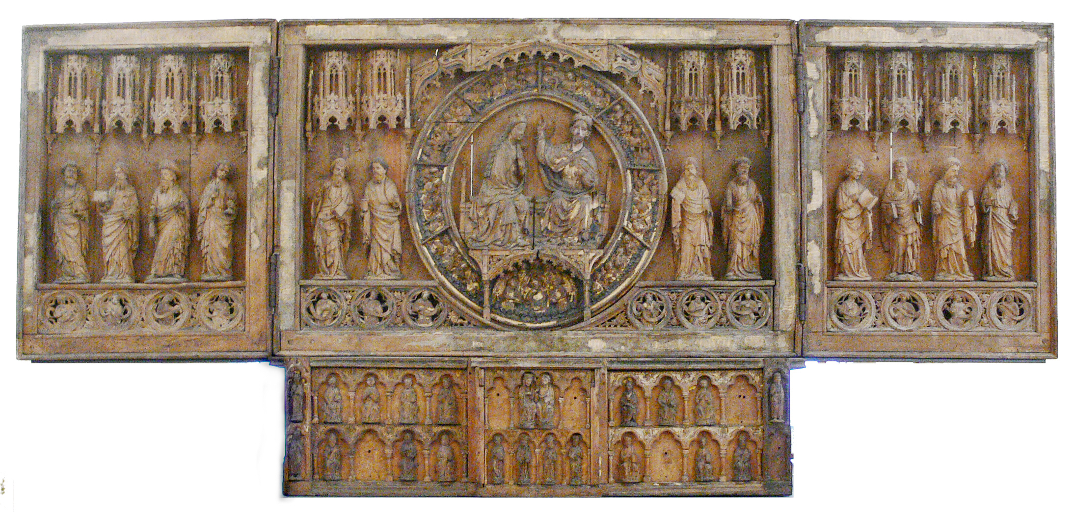 Altarpiece from Minden Cathedral: Coronation of the Virgin and Apostles, oakwood, Westphalia and Lübeck (?), c. 1220 and c. 1425 (pedestal from the 13th century in the shape of a reliquary shrine). Skulpturensammlung Berlin (Inv. 5863, purchased in 1909). Bode-Museum, Berlin. (A copy is situated at the original location in Minden Cathedral, Westfalia.)